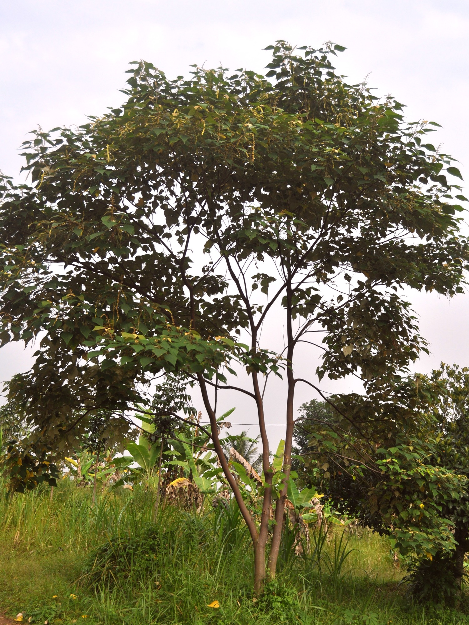 Mallotus paniculatus; habits. From Bogor, West Java, Indonesia.